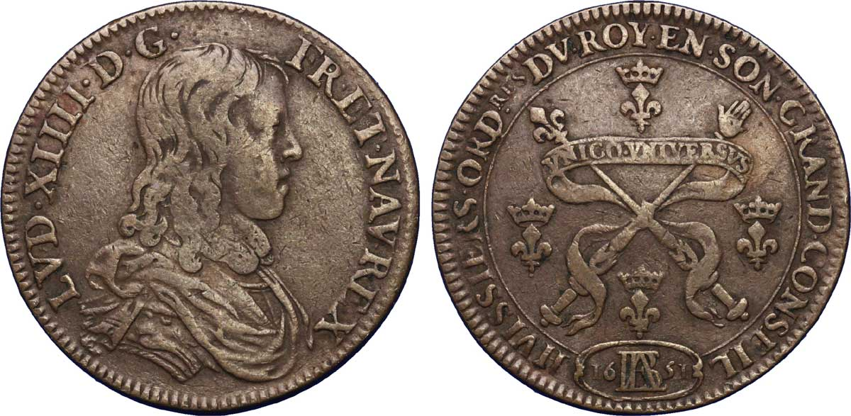 Jeton de la corporation des huissiers. Description revers : Sceptre et main de Justice en sautoir cantonnés de quatre fleurs de lis ; sur une banderole : UNICO UNIVERSUS .